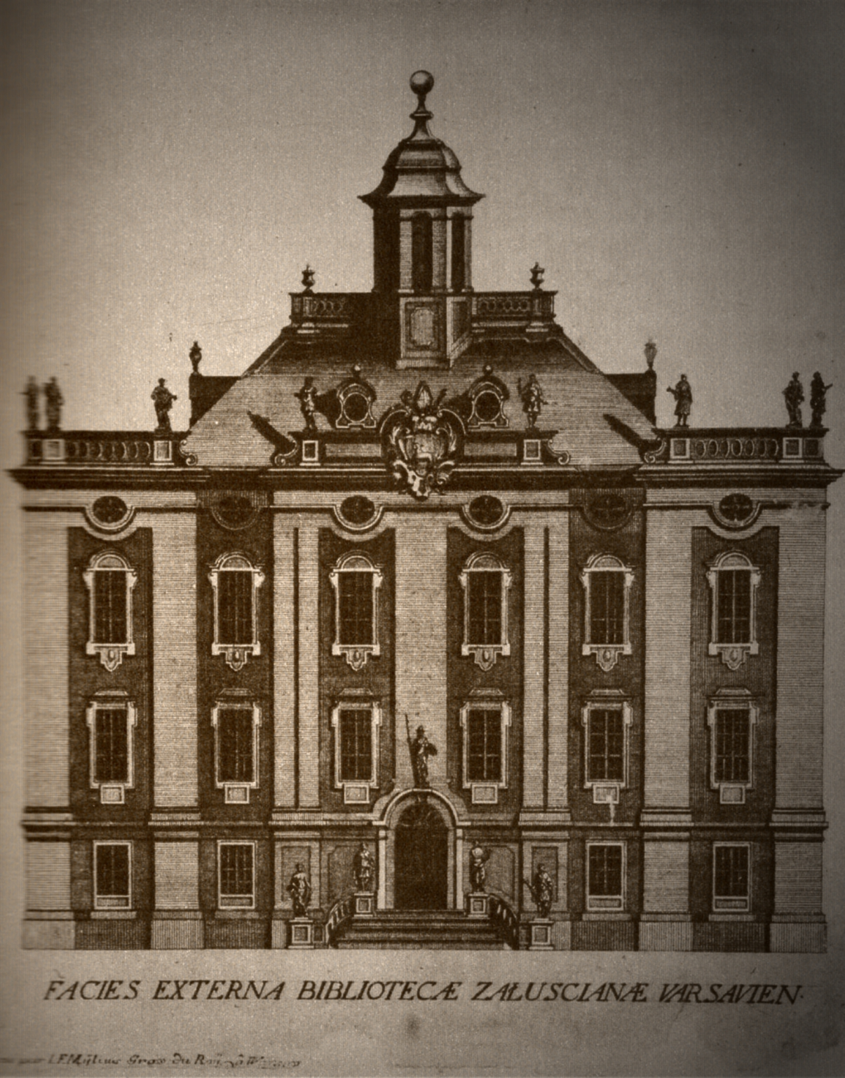 Załuski Library in Warsaw. It was considered to be the first Polish public library. In 1794 Russian troops plundered the library and took its collection to St. Petersburg. In the 1920s the Soviet Union government returned around 50,000 items from the collection to Poland, yet it was destroyed by Nazi Germany during the Warsaw Uprising of 1944.